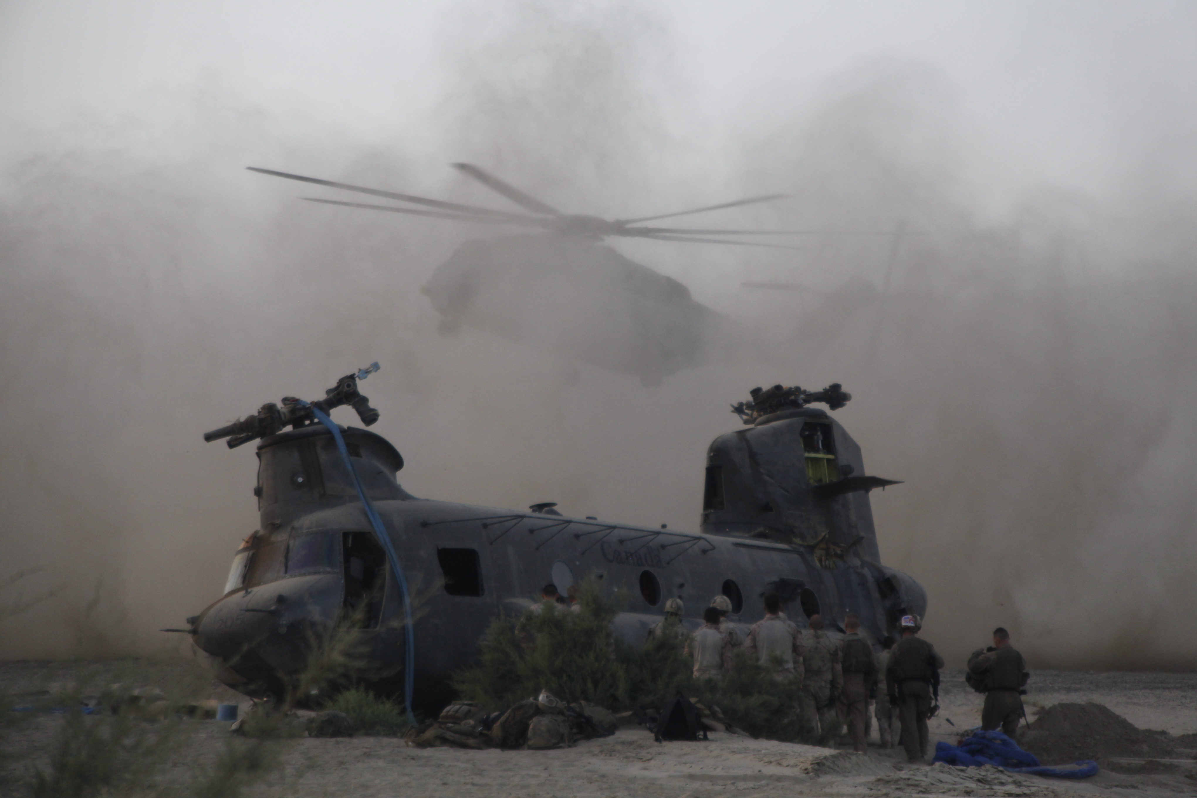 A Marine Heavy Helicopter Squadron 461 CH-53E Super Stallion lands next to a downed Canadian Forces CH-47 Chinook during a tactical recovery of aircraft and personnel mission in Kandahar Province, Afghanistan, May 17. Utilizing a trio CH-53E Super Stallion helicopters from Marine Heavy Helicopter Squadron 461, with assistance from 2nd Marine Logistics Group’s helicopter support team, the Canadian and American team was able to transport the injured aircraft back to its home at Kandahar Airfield, Afghanistan.